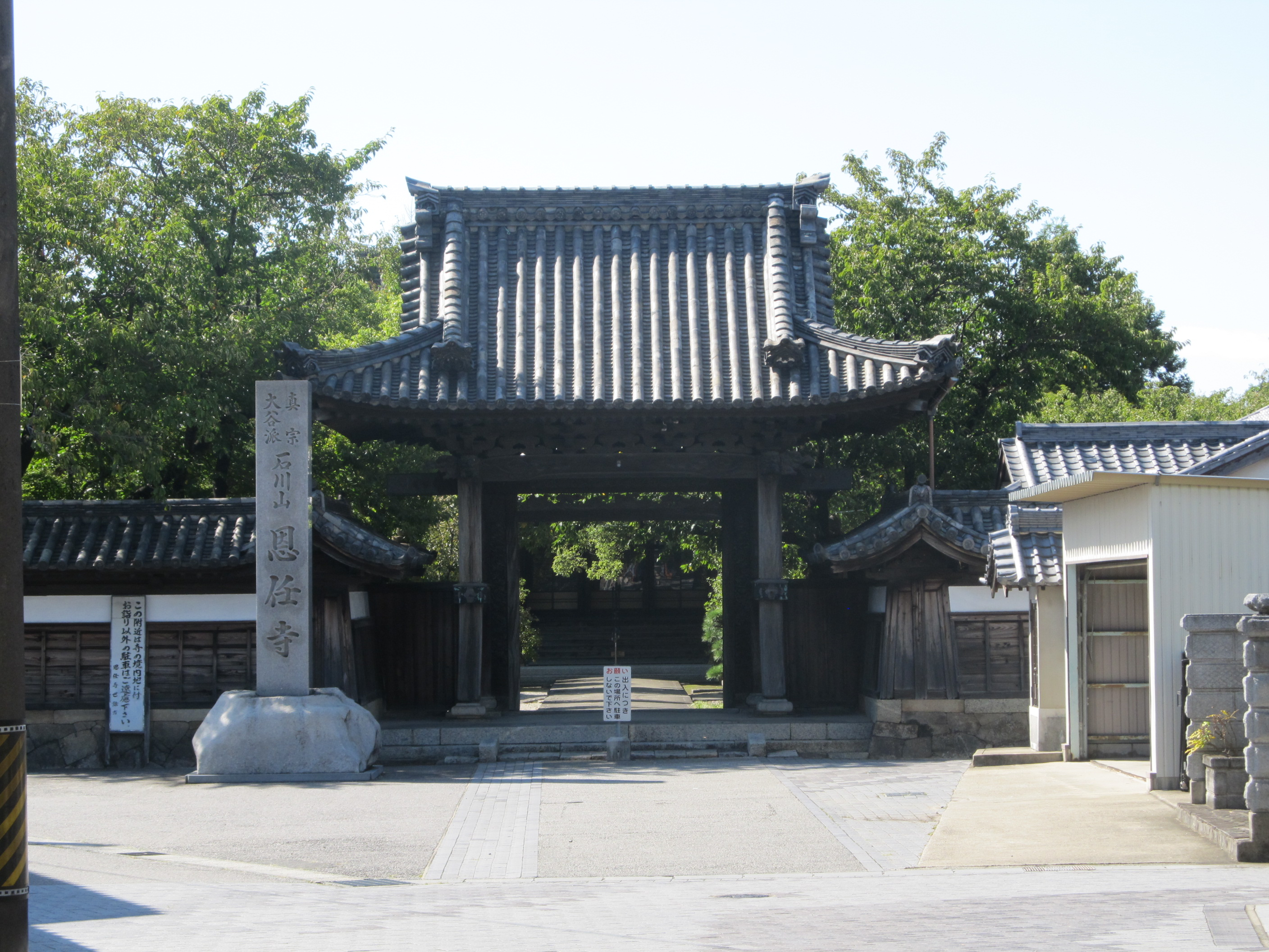 Onnin Temple in Takahama City